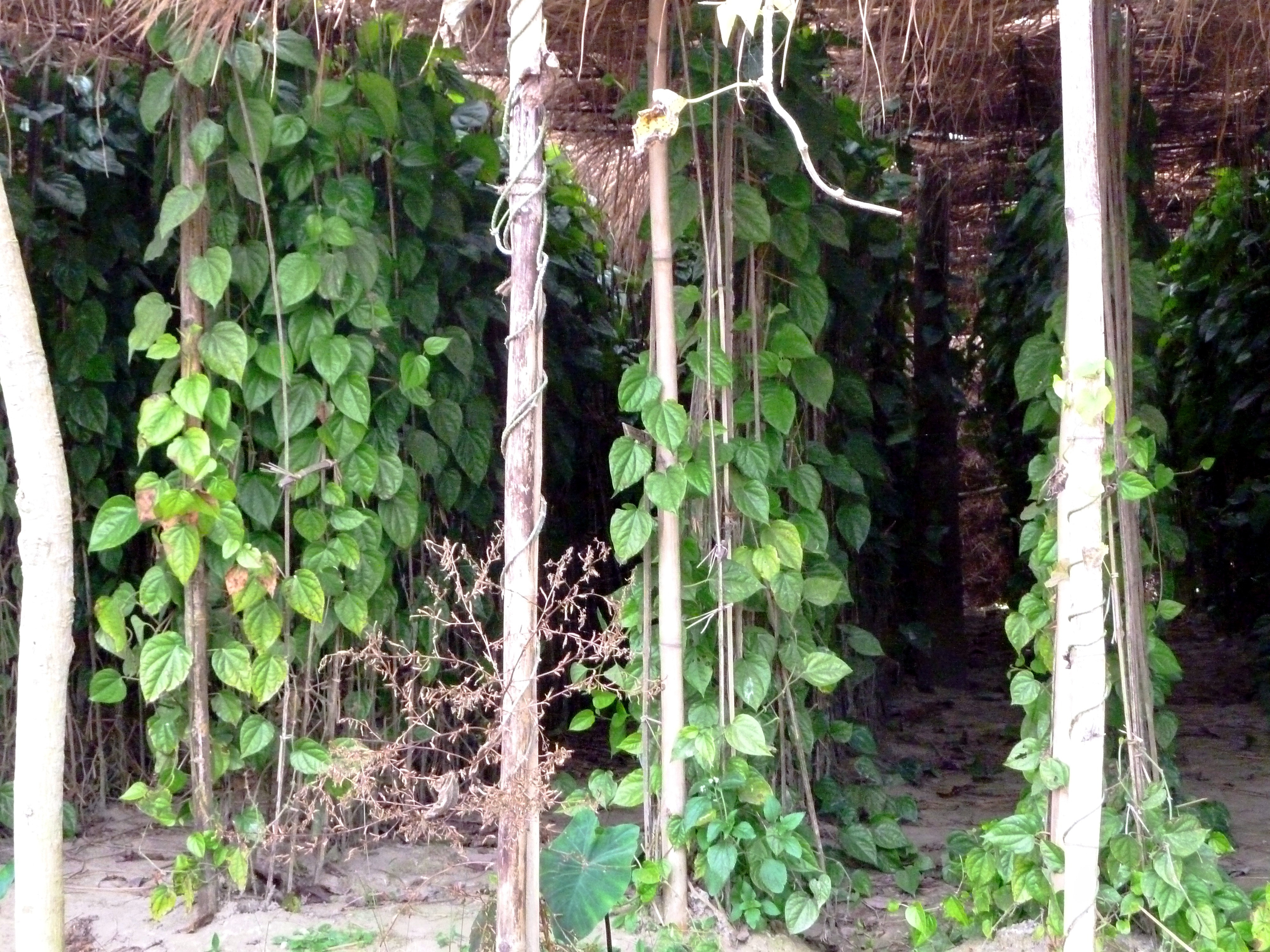 Betel plant cultivation in Malda district, West Bengal, India.